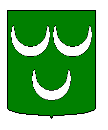 COA of Groeneveld